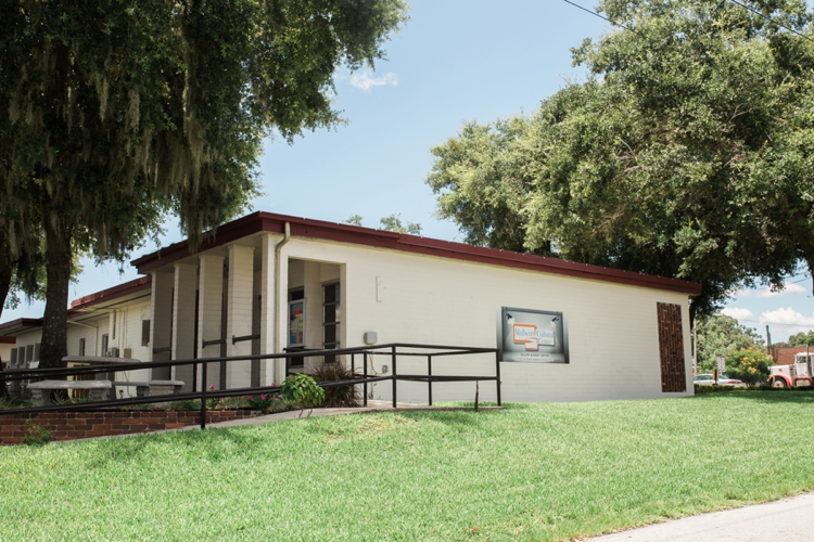 Image of the outside of the Mulberry Cultural Center on HWY 60.